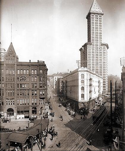 Pioneer Square, March 17, 1917 Looking east from the intersection of James St. and Yesler. At left is the Pioneer Building, with the Pioneer Square Pergola in front of it in Pioneer Square Park; in the middle is the Hotel Seattle, also known as Occidental Block (now demolished); immediately behind that at left the Collins Block peeks out; the tall building is the Smith Tower; and at right is a bit of the Olympic Block (now demolished).